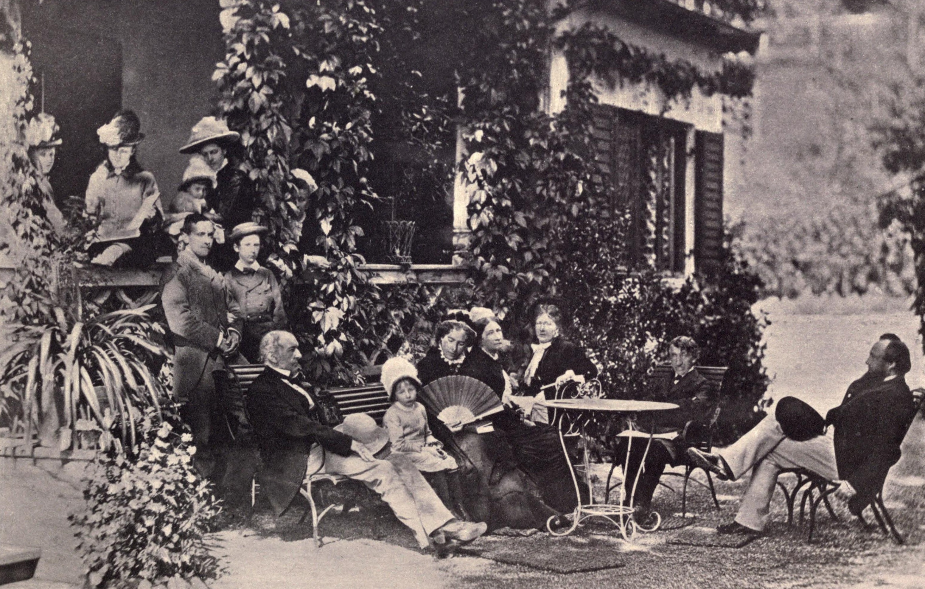 Lord Acton in a Group Portrait at Tegernsee